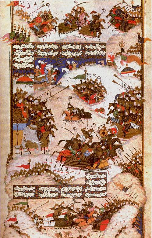 Khusraw and Bahram Chubin in battle. Khamsa manuscript from Tabriz (Northern Iran)